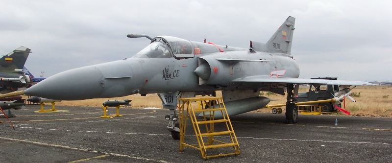 Ecuadorian Air Force (FAE) Kfir CE # 901. Picture taken in 2004.